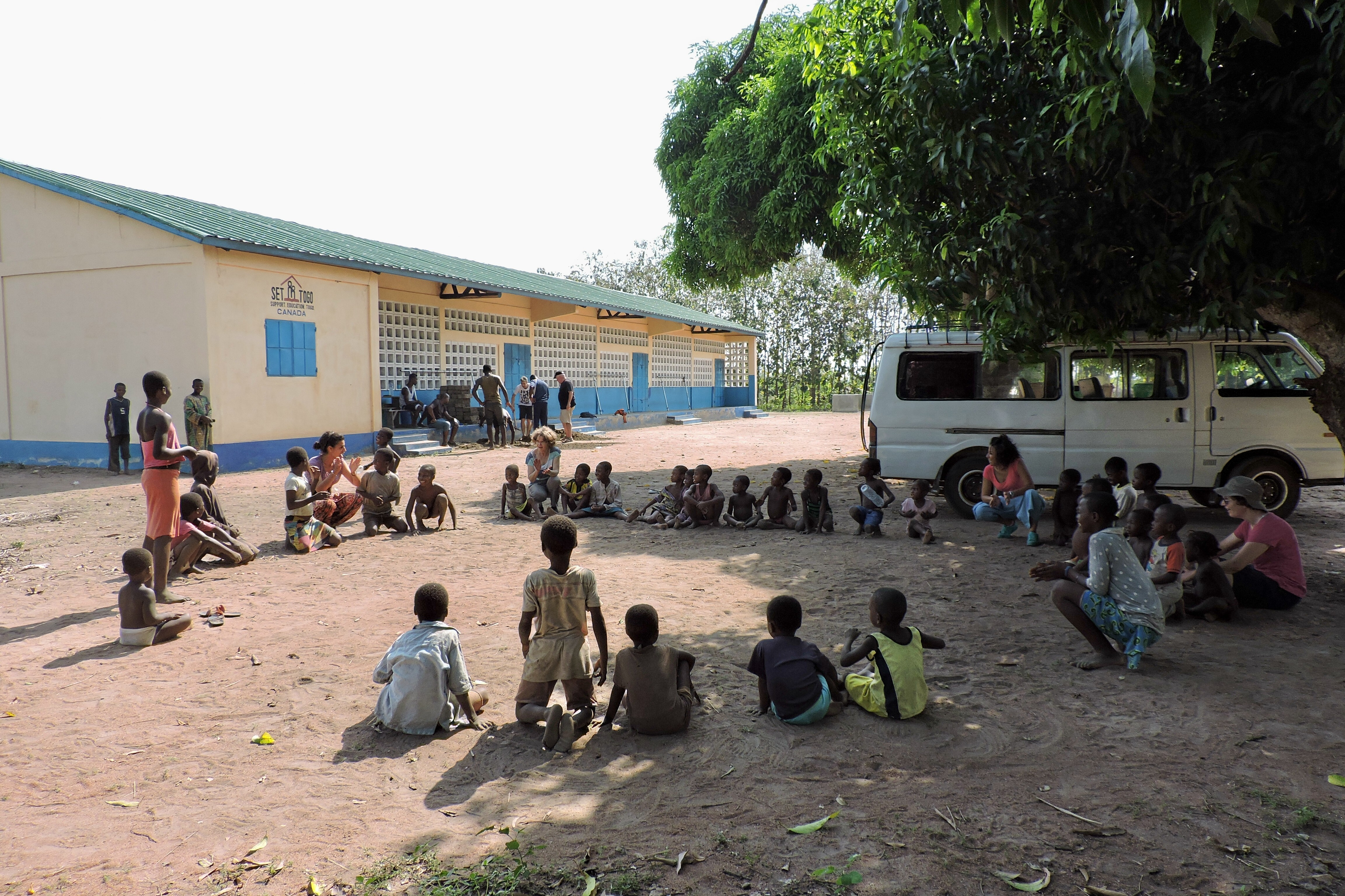 This is an image with the theme "Play" from: Togo